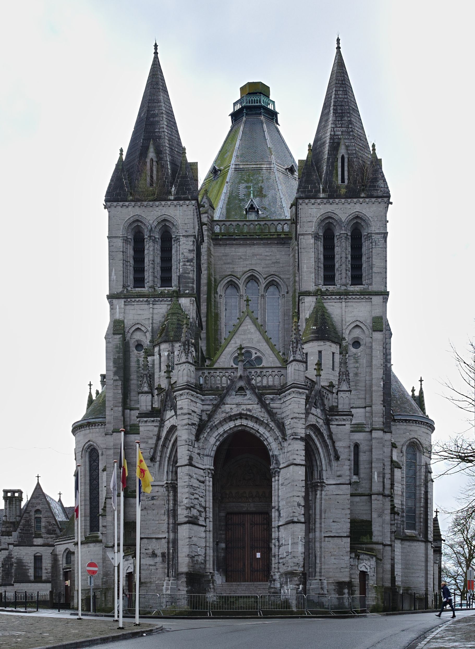 Basilique Notre-Dame de Bon-Secours in Péruwelz, Belgium